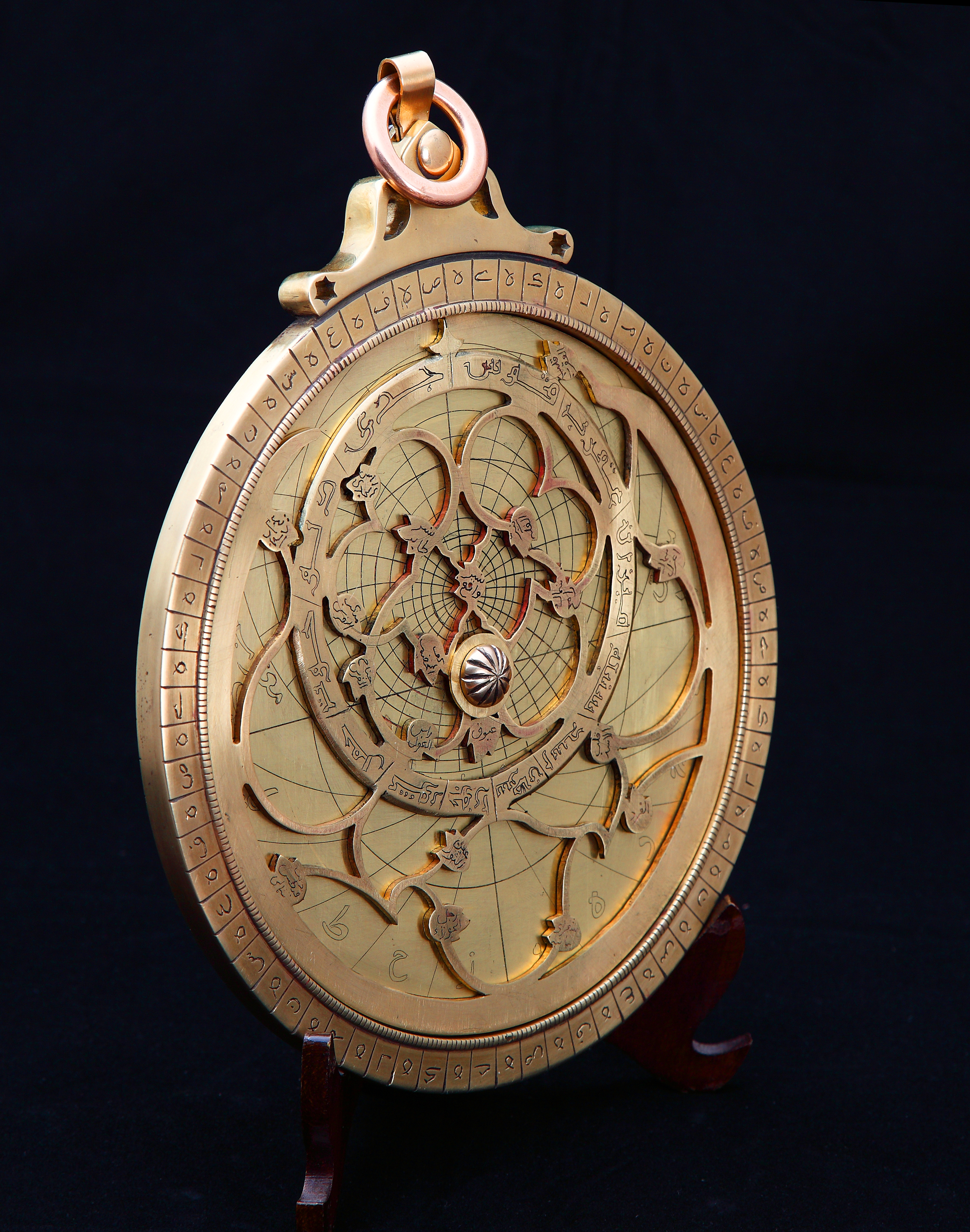 A new Iranian flat Astrolabe, made in Tabriz in 2013, by Jacopo Koushan. Made from brass. It is an ancient astronomical tool. Photographs by Masoud Safarniya.